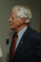 Robert D. Orr, Governor of Indiana